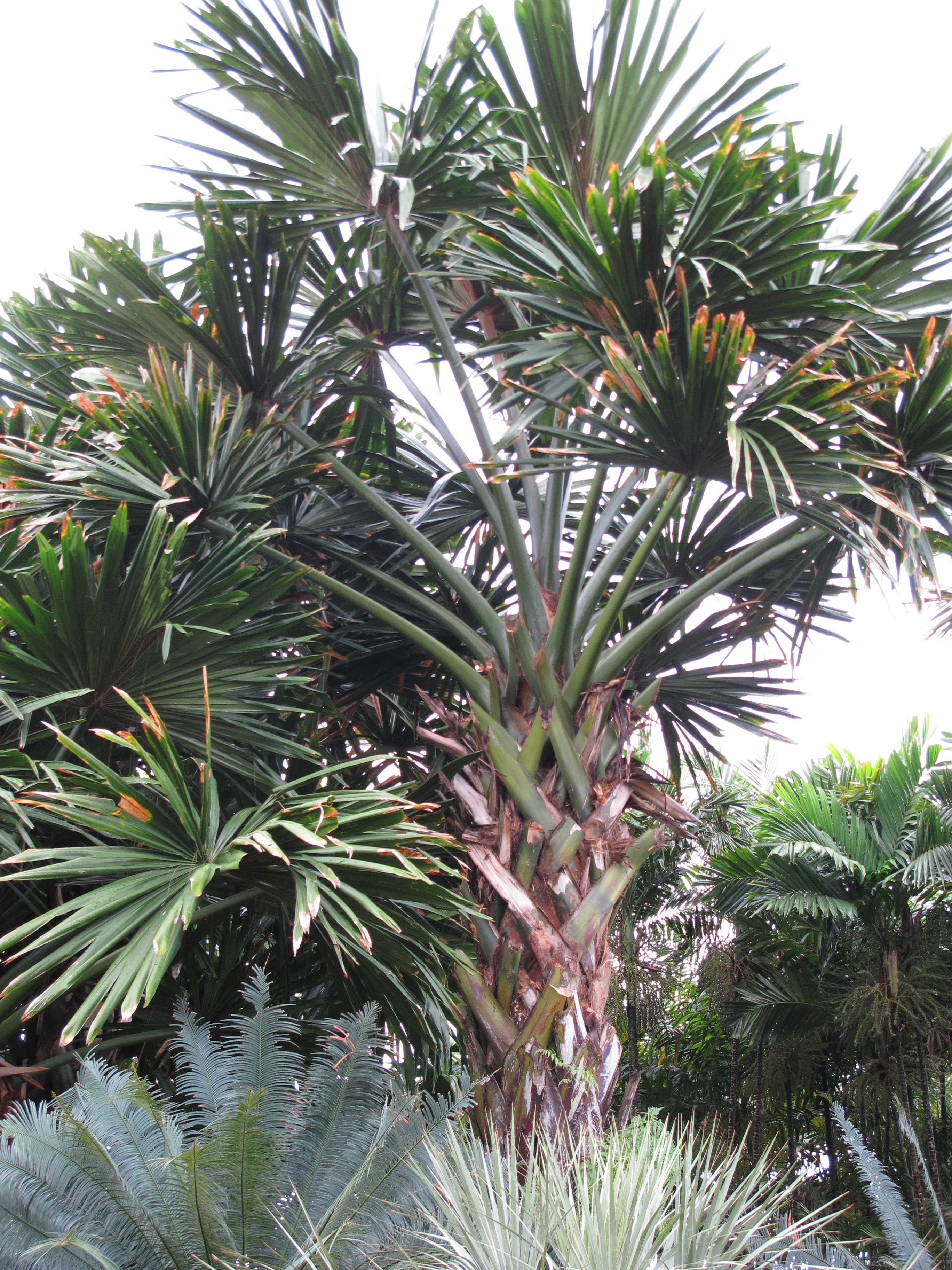 Nong Nooch Tropical Garden, Pattaya, Thailand.